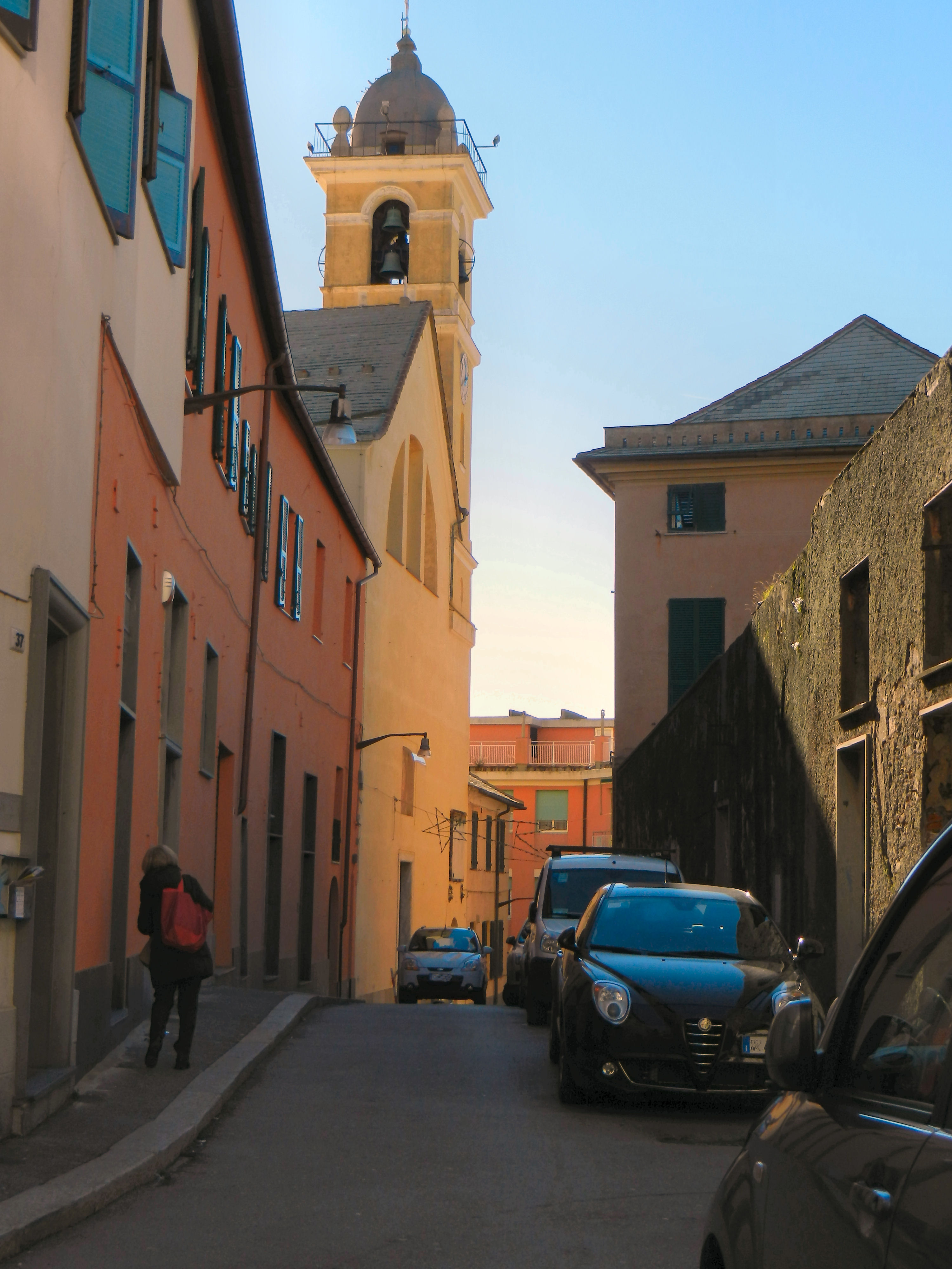 Genoa, Italy, quarter of San Teodoro, church of San Rocco sopra Principe